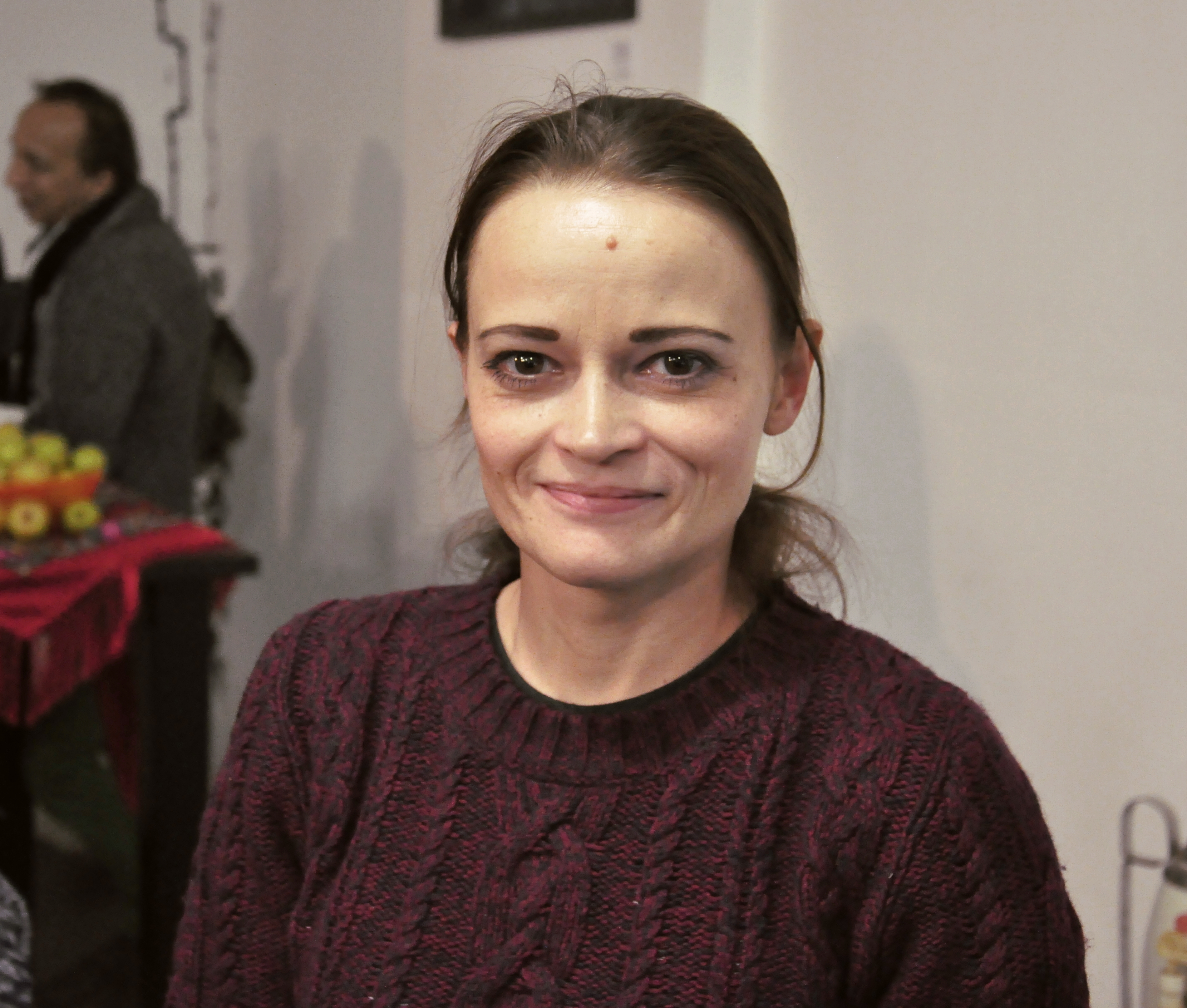 Vasilina Makovtseva, Moscow, October 2017